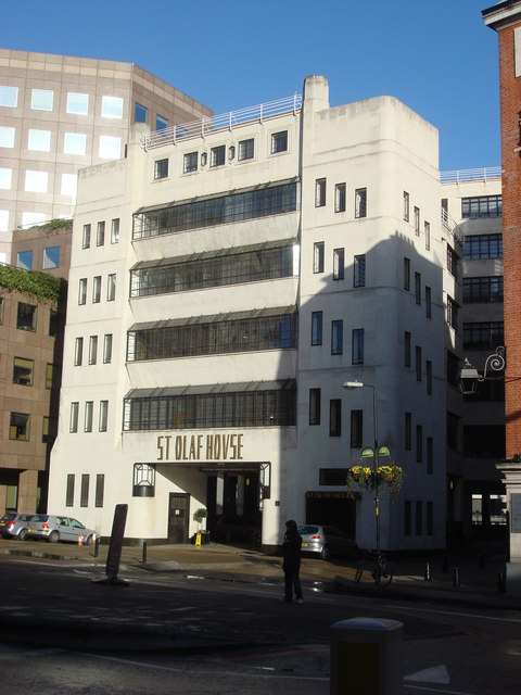 St Olaf House. St Olaf House on Tooley Street was Designed by H S Goodhart-Rendel for the Hays Wharf Company in 1928-32 as offices and warehousing, the Art Deco facade includes turrets and angled walls. The building is named after the Viking chieftain Olaf Haraldsson (St. Olaf) who attacked London by river in 1009 and tore down London Bridge. It was built on the site of St Olave's church (an alternative spelling of the name) which had occupied the site from the 11th century, was rebuilt in 1740 and finally demolished around 1926. For the only remaining relic of the church nearby, see 1410297.